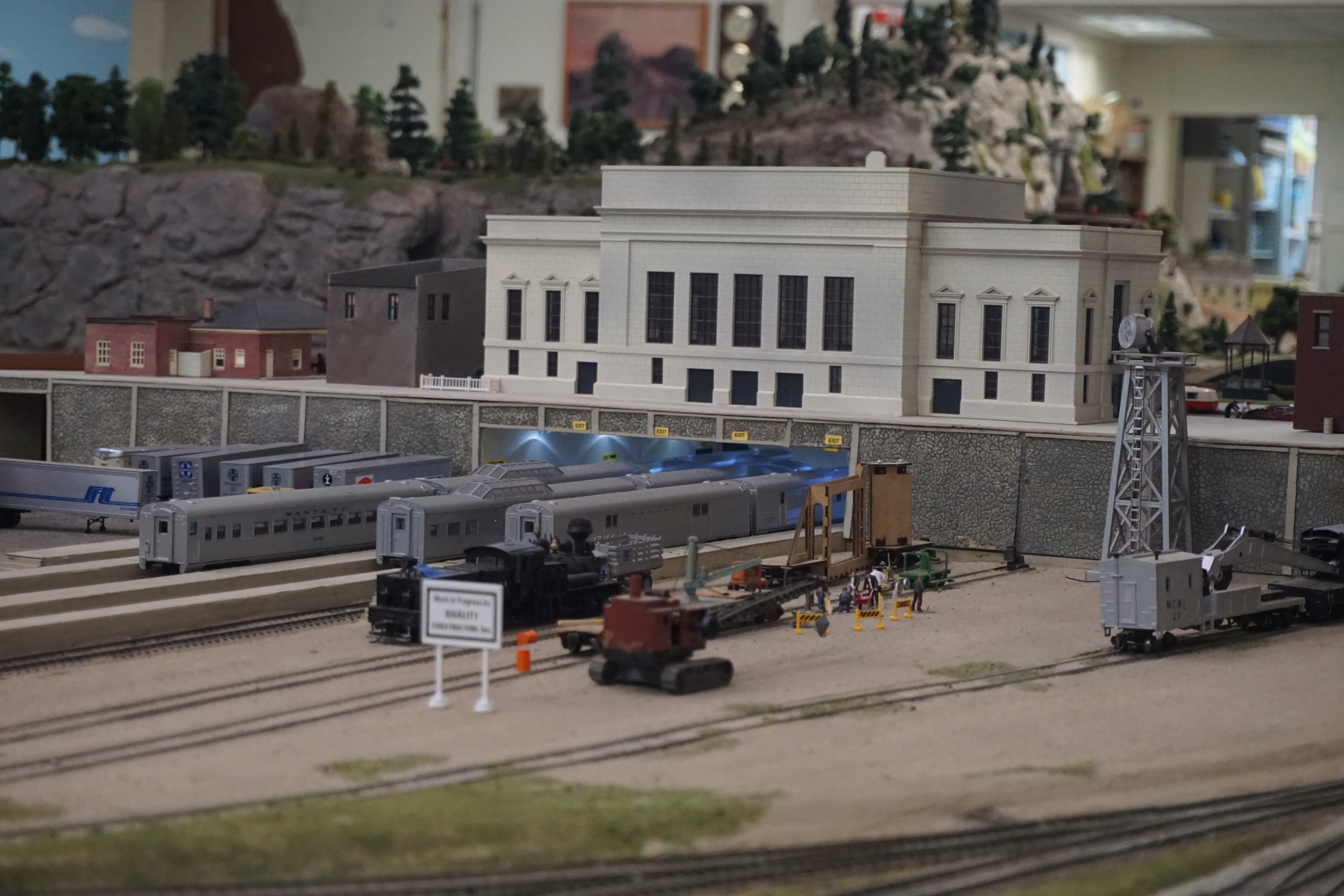 The HO-scale layout at the 2019 East Texas Model Railroad Club Open House in Commerce, Texas (United States).